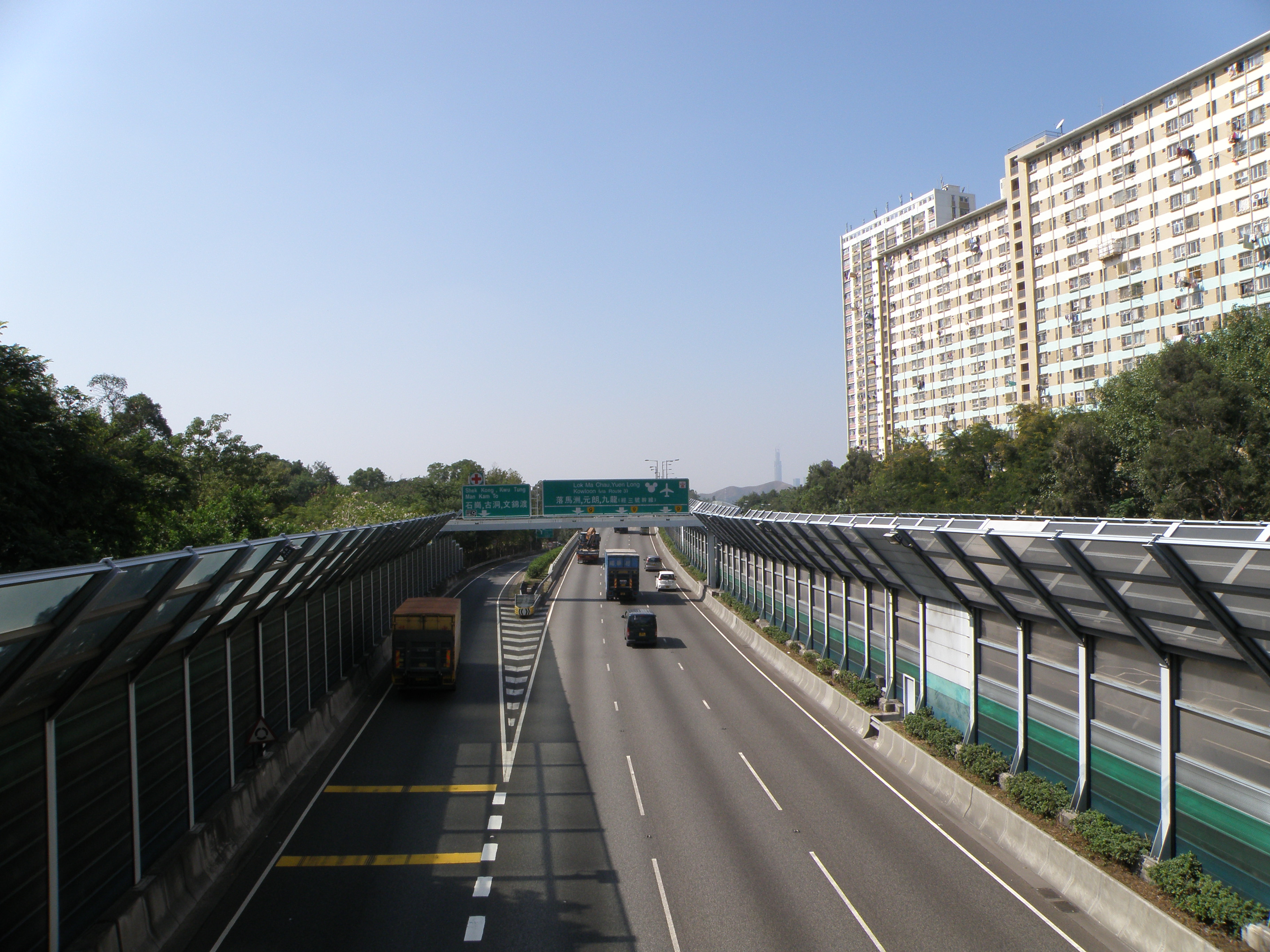 Fanling Highway Sheung Shui section, Hong Kong.